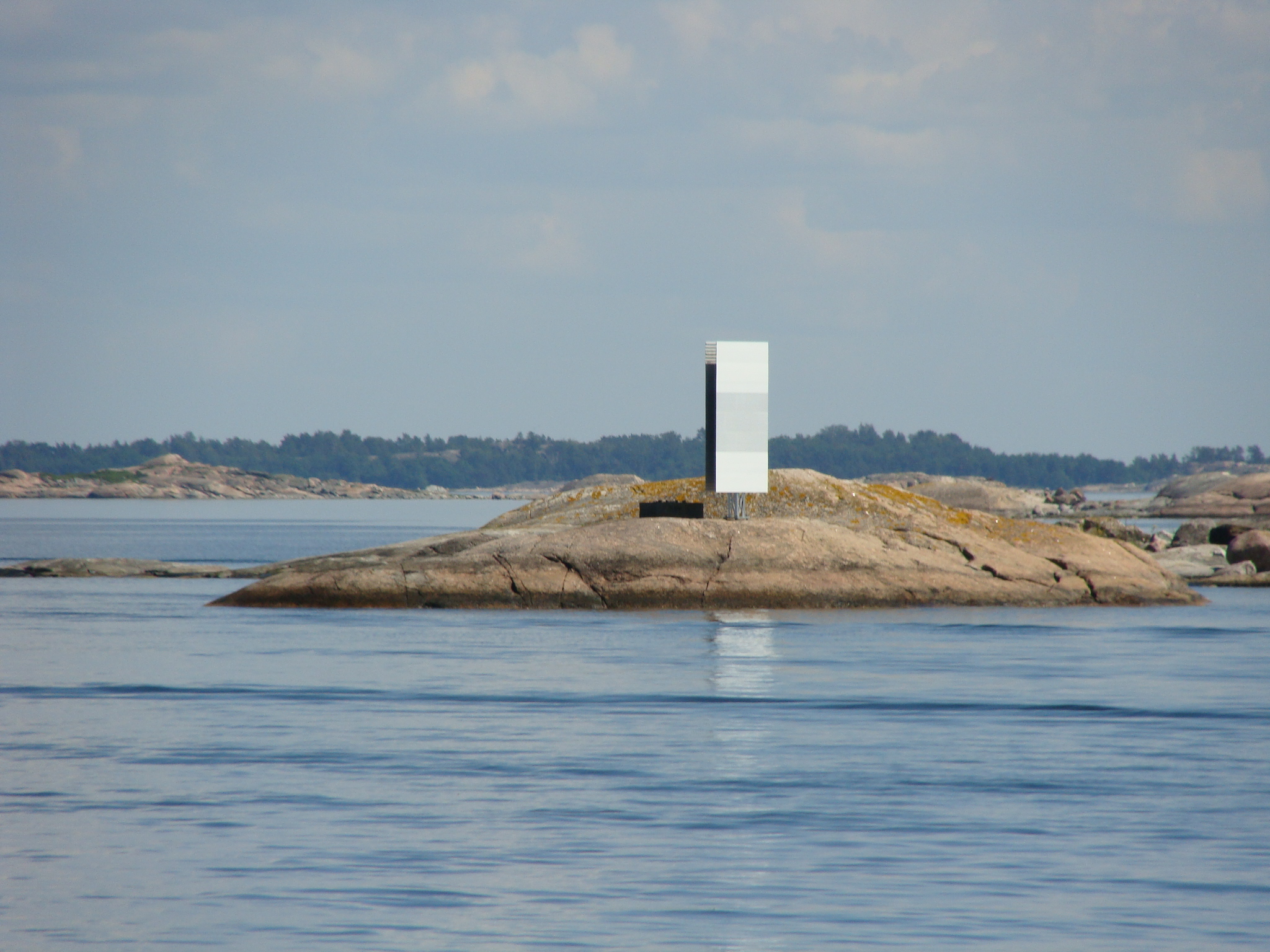 A cairn (aid to navigation) made of painted board and retroflecting material by the islet Hamnkobbarna in Southern Archipelago Sea in Finland.